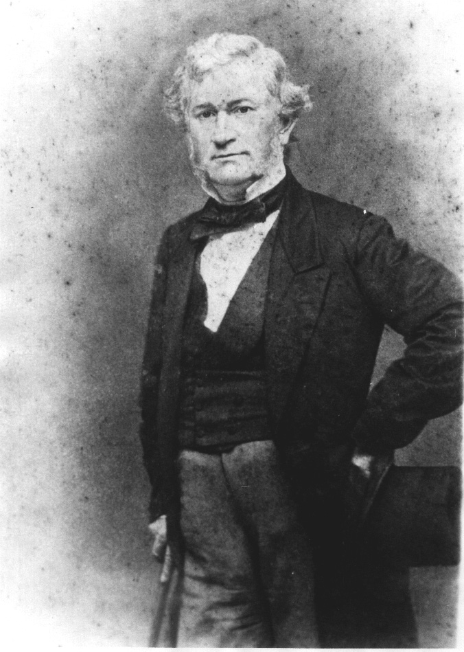 Standing portrait photograph of Lucius Junius Polk.